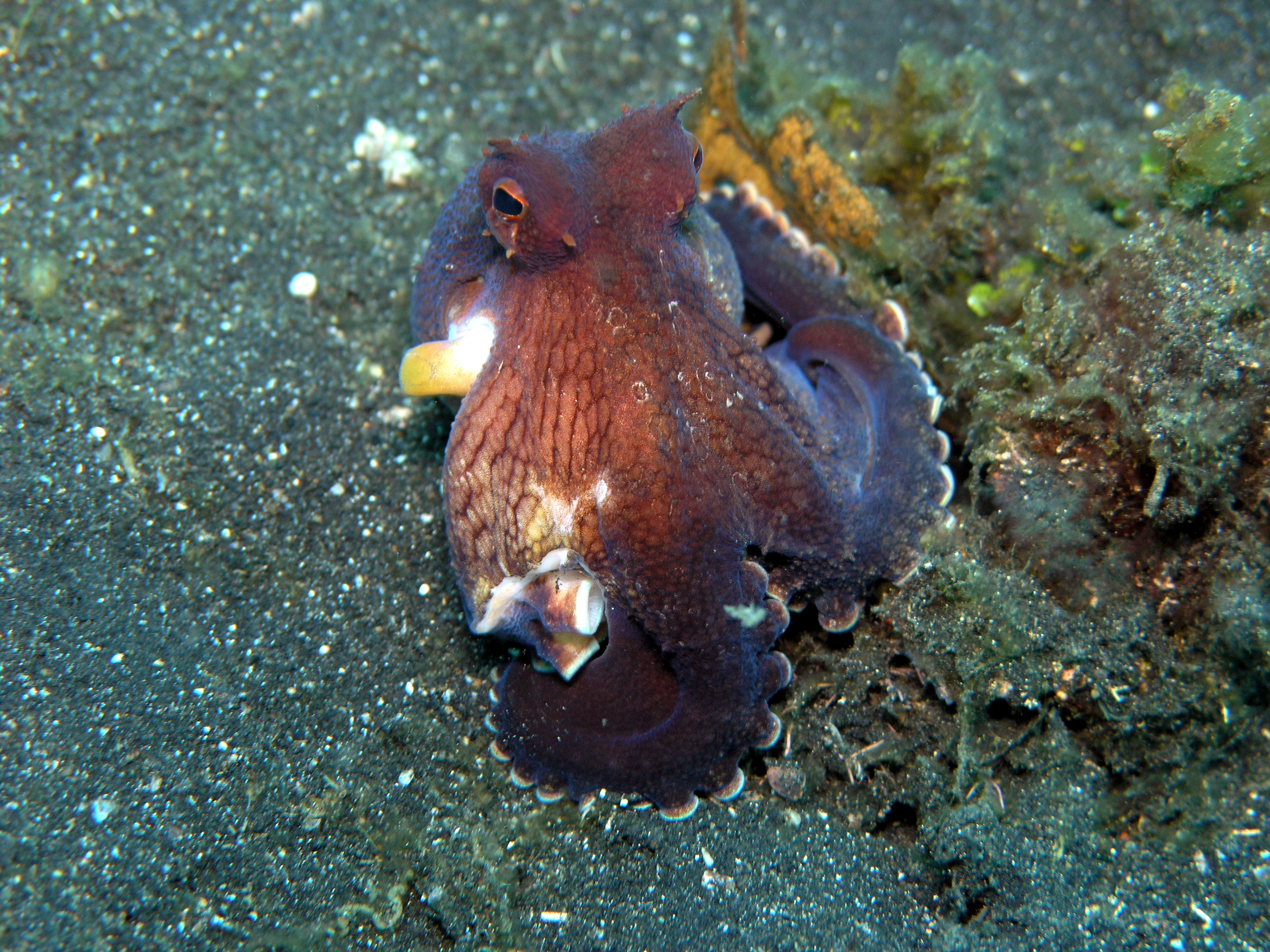 Image of a coconut octopus, Octopus marginatus. Taken at Lembeh Straits, North Sulawesi, Indonesia.